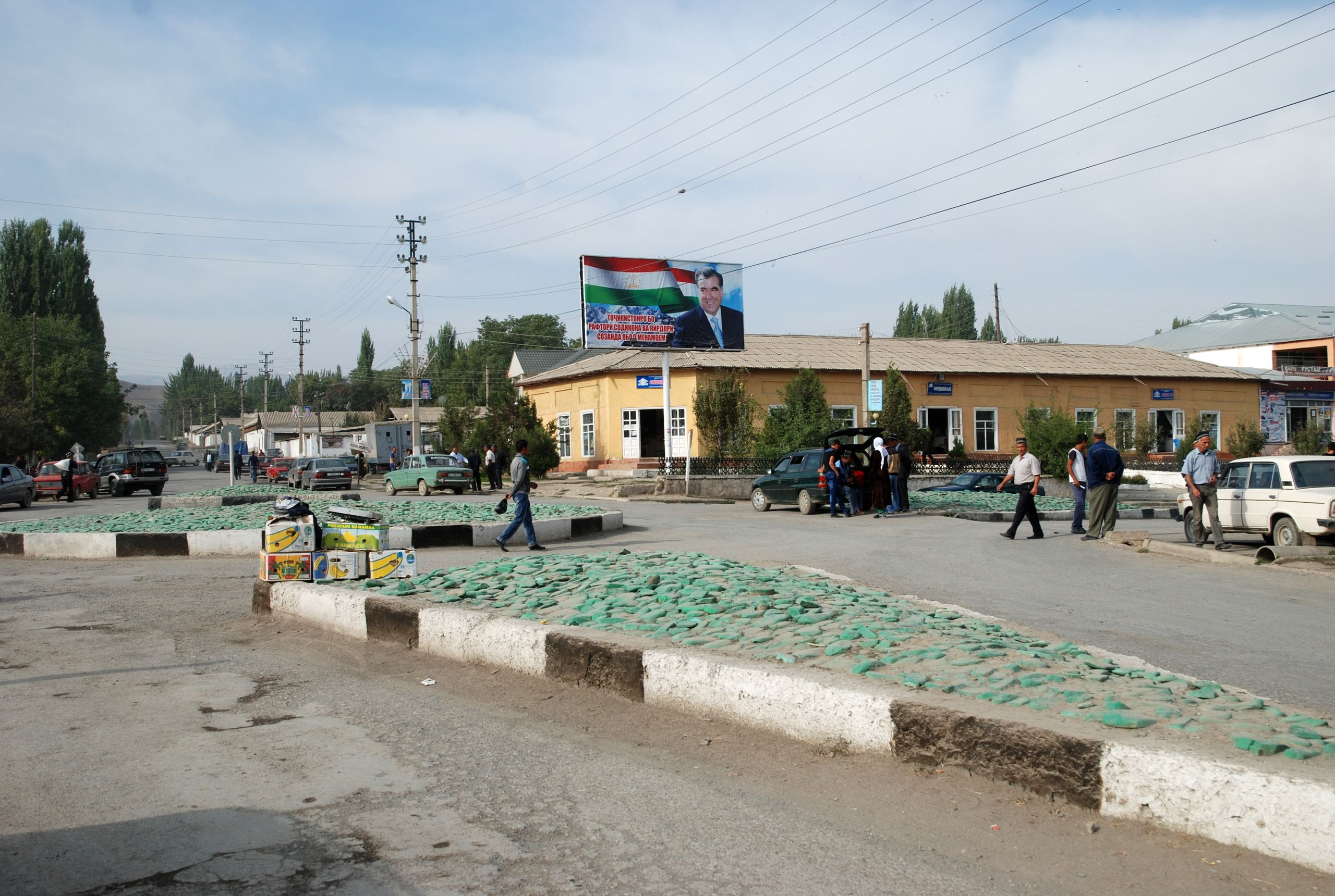 Shahriston, Sughd province